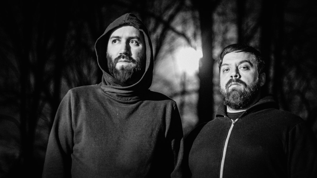 2017 press photo for junius